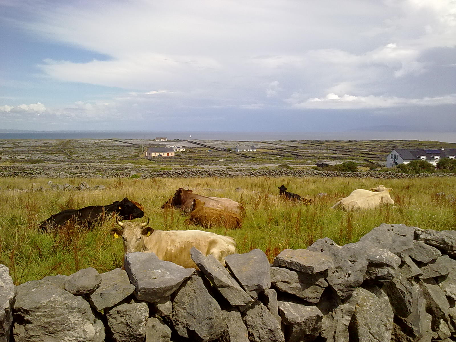 Cows in Inis Meáin